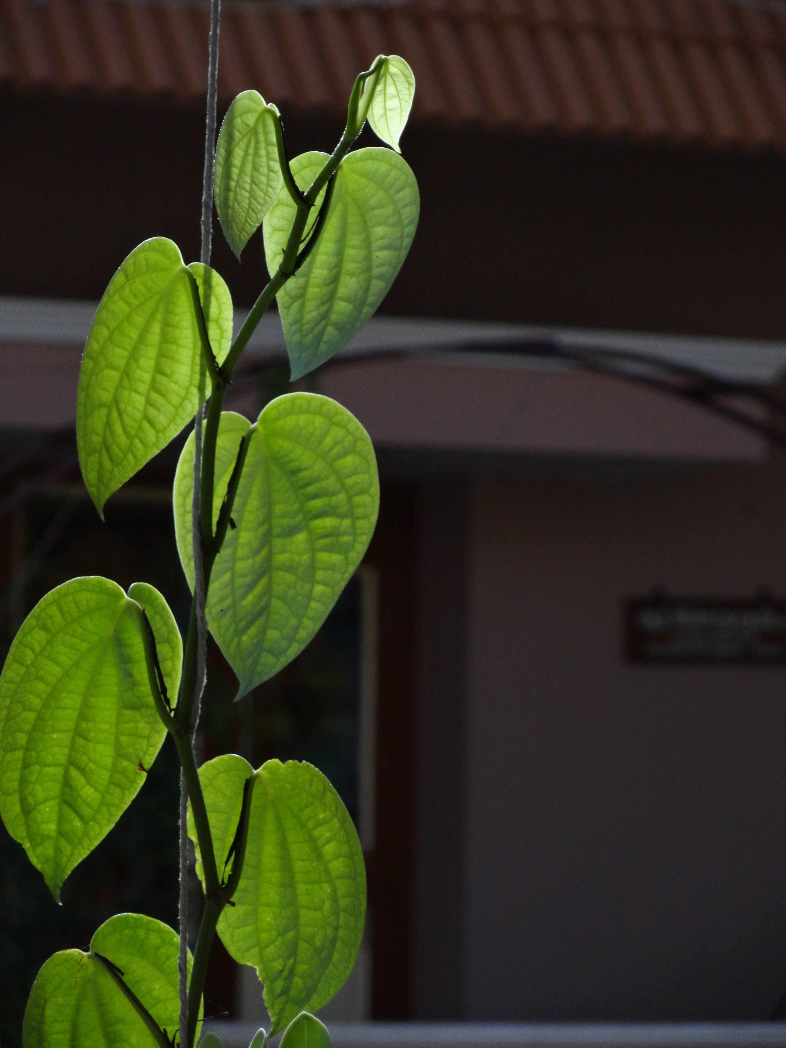 pepper vine